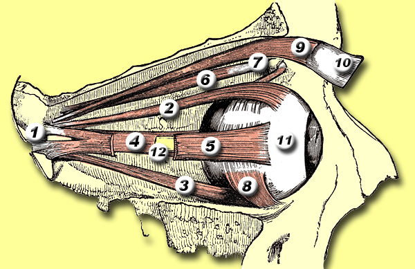 Muscles of the eye - based on image 889 from online edition of Gray's Anatomy Rectus muscles: 2 = superior, 3 = inferior, 4 = medial, 5 = lateral Oblique muscles: 6 = superior, 8 = inferiorOther muscle: 9 = levator palpebrae superiorisOther structures: 1 = Annulus of Zinn, 7 = Trochlea, 10 = Superior tarsus, 11 = Sclera, 12 = Optic nerve